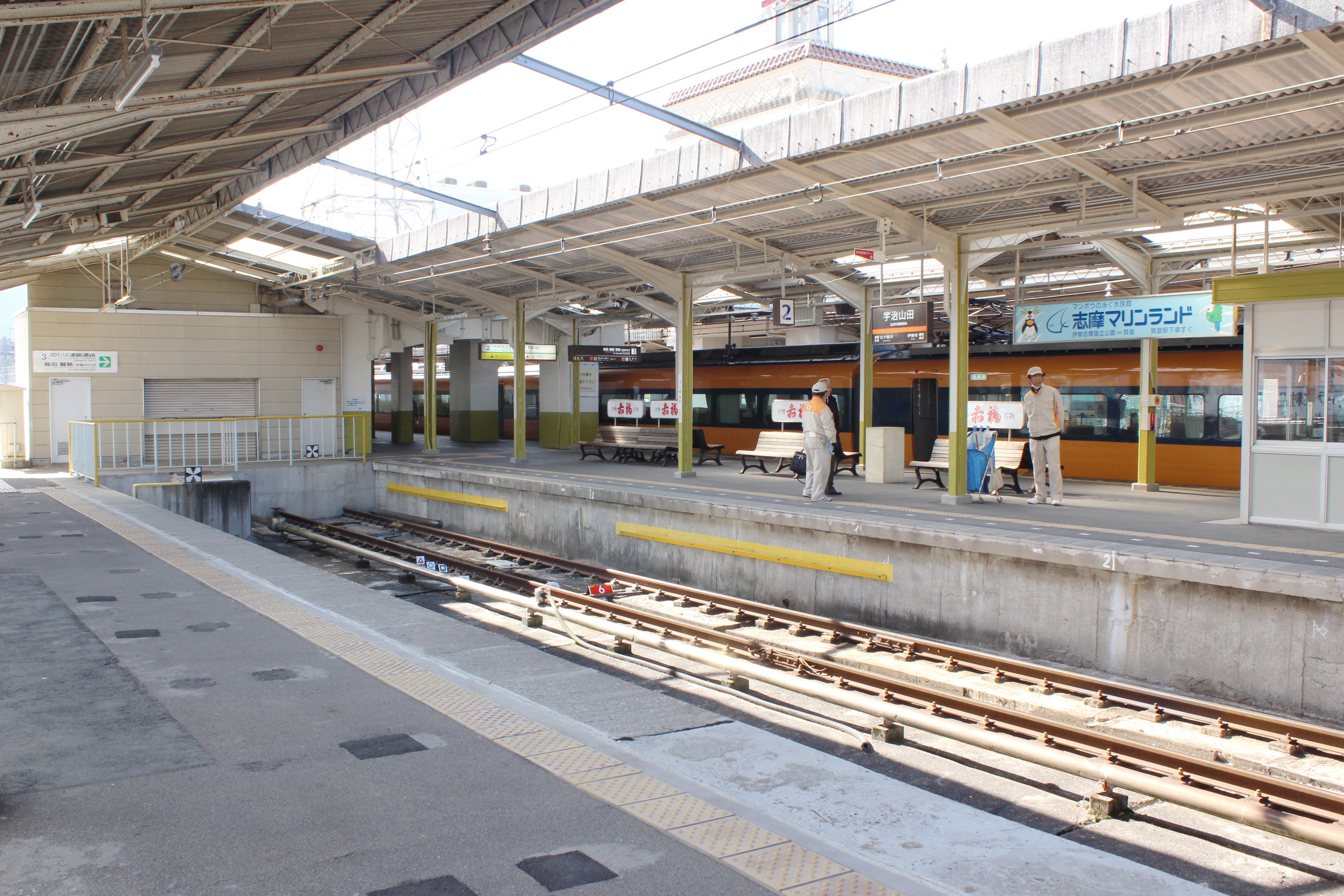 Bay platform at Kintetsu Ujiyamada Station